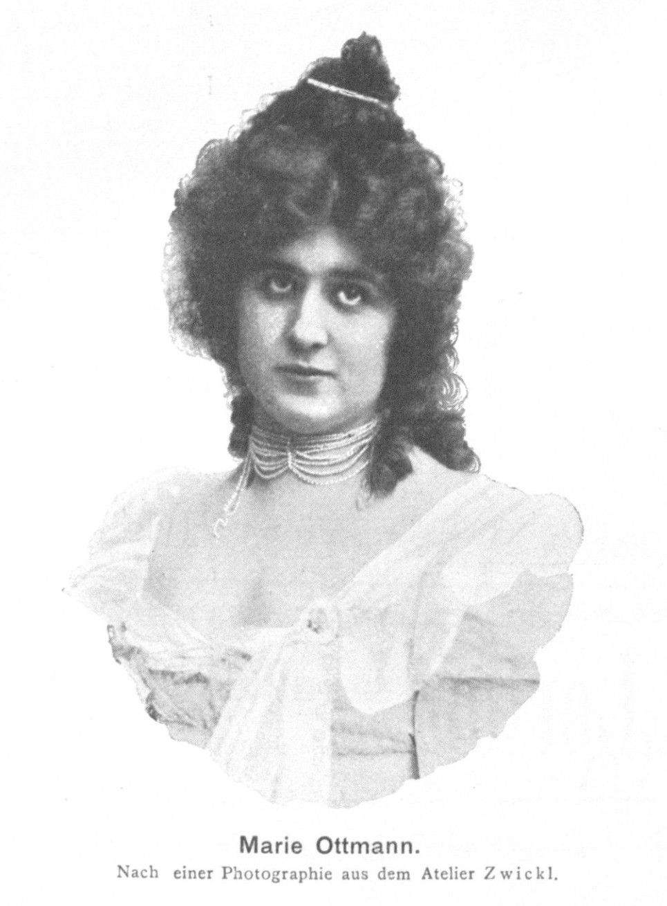 Portrait of Marie Ottmann (1876-??), Austrian opera singer.